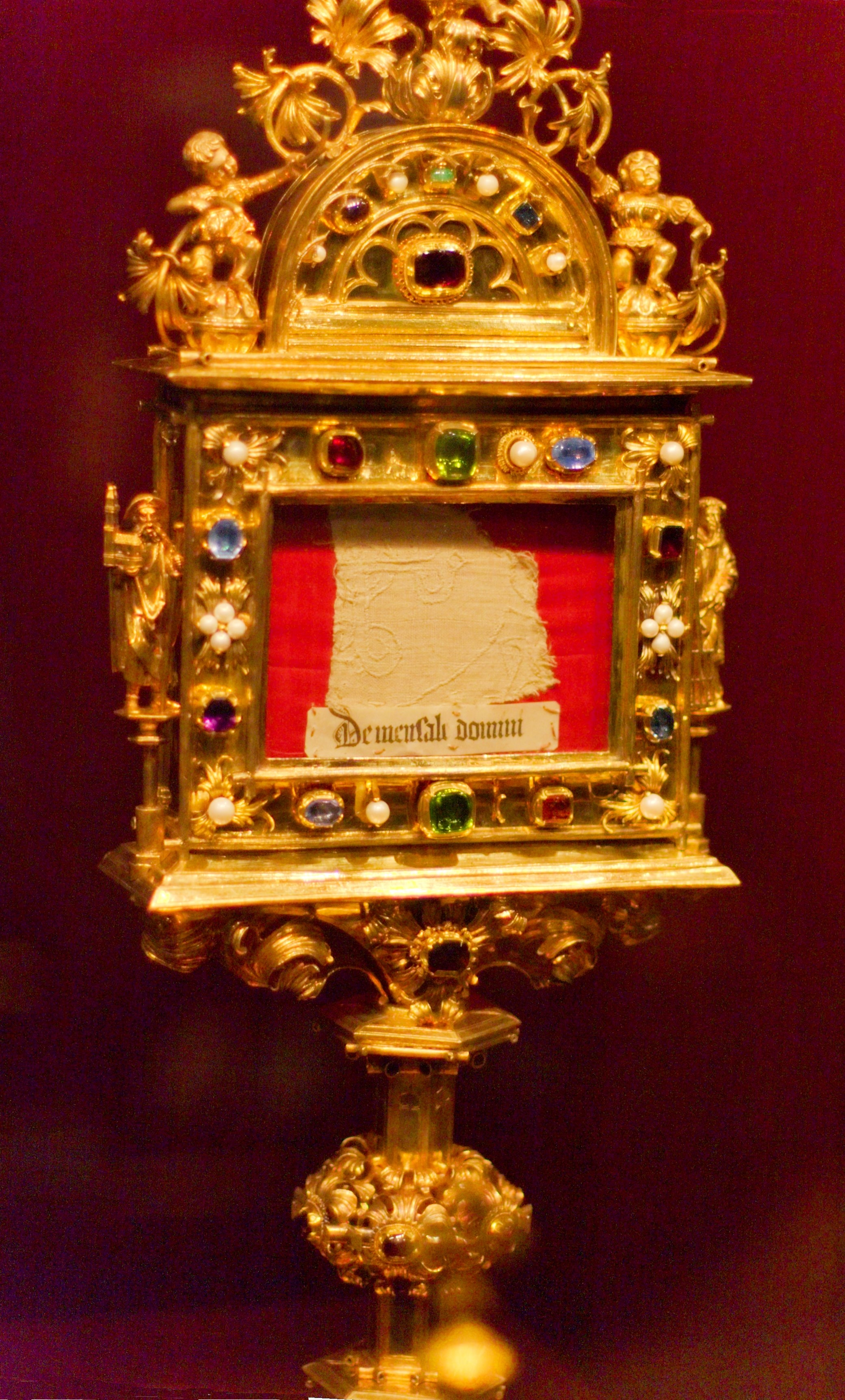 Reliquary with a piece of the tablecloth used during the Last Supper